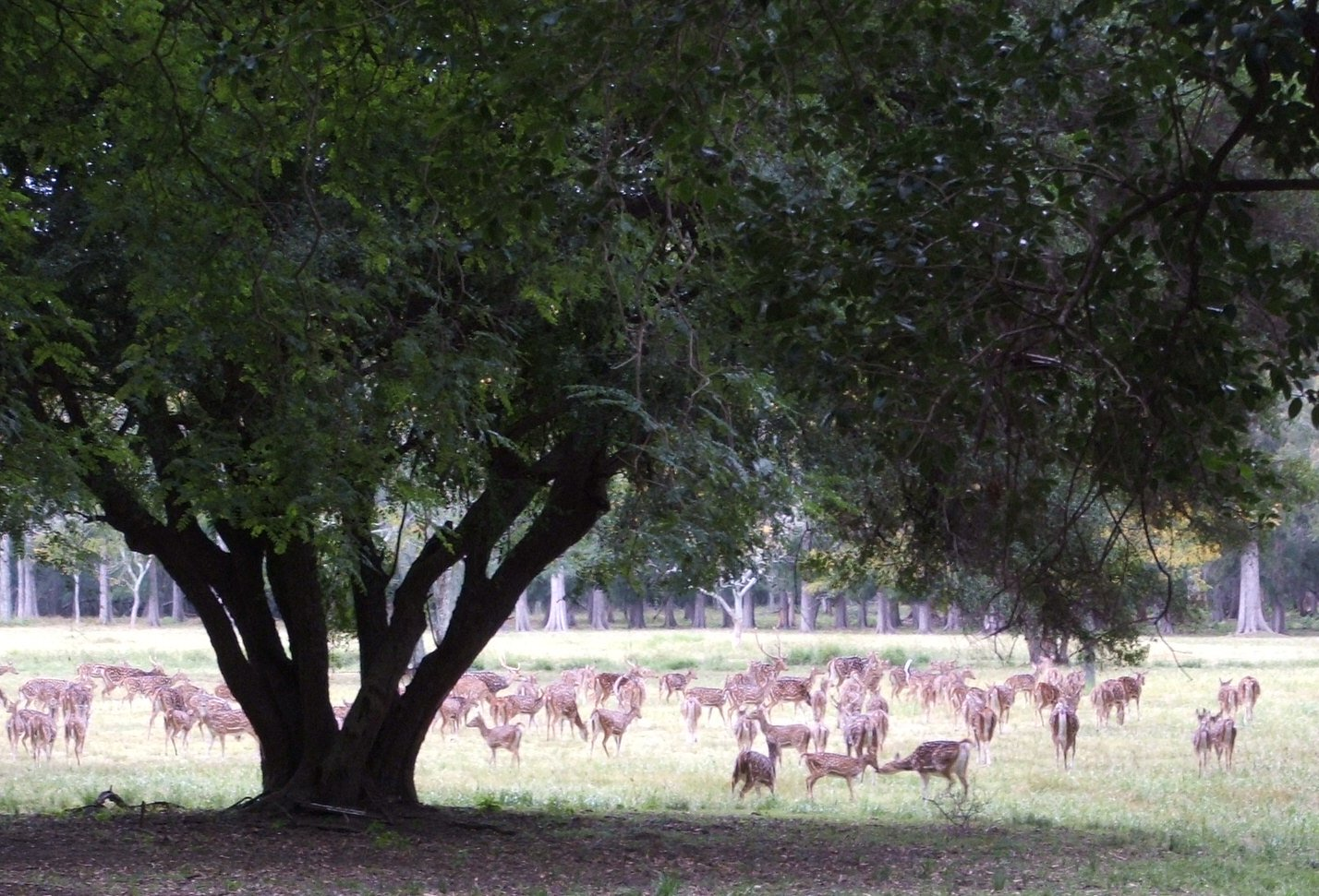 Axis axis deer, Anchorena Park, Colonia, Uruguay